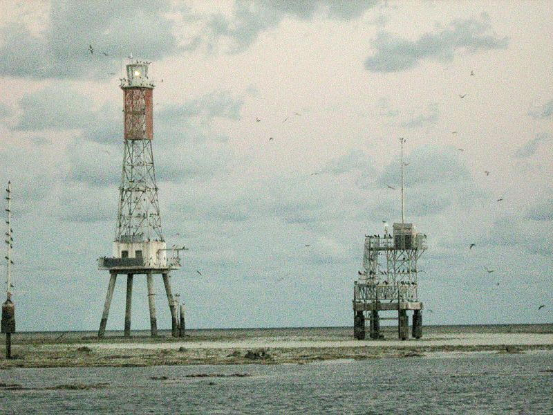 Creal Reef Light and weather station